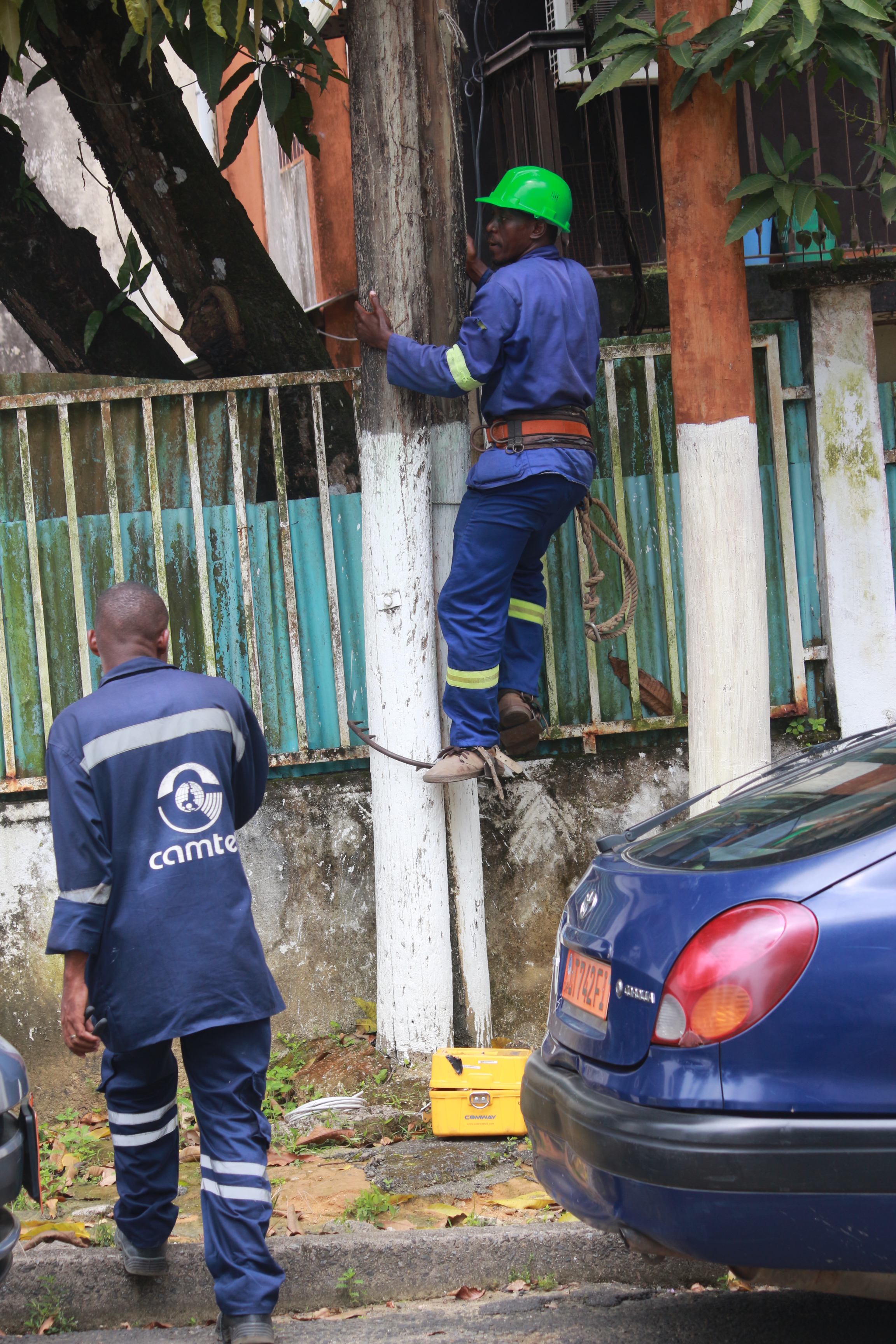 Les agents de la société de téléphonie Camtel en plein travail This is an image of "African people at work" from Cameroon